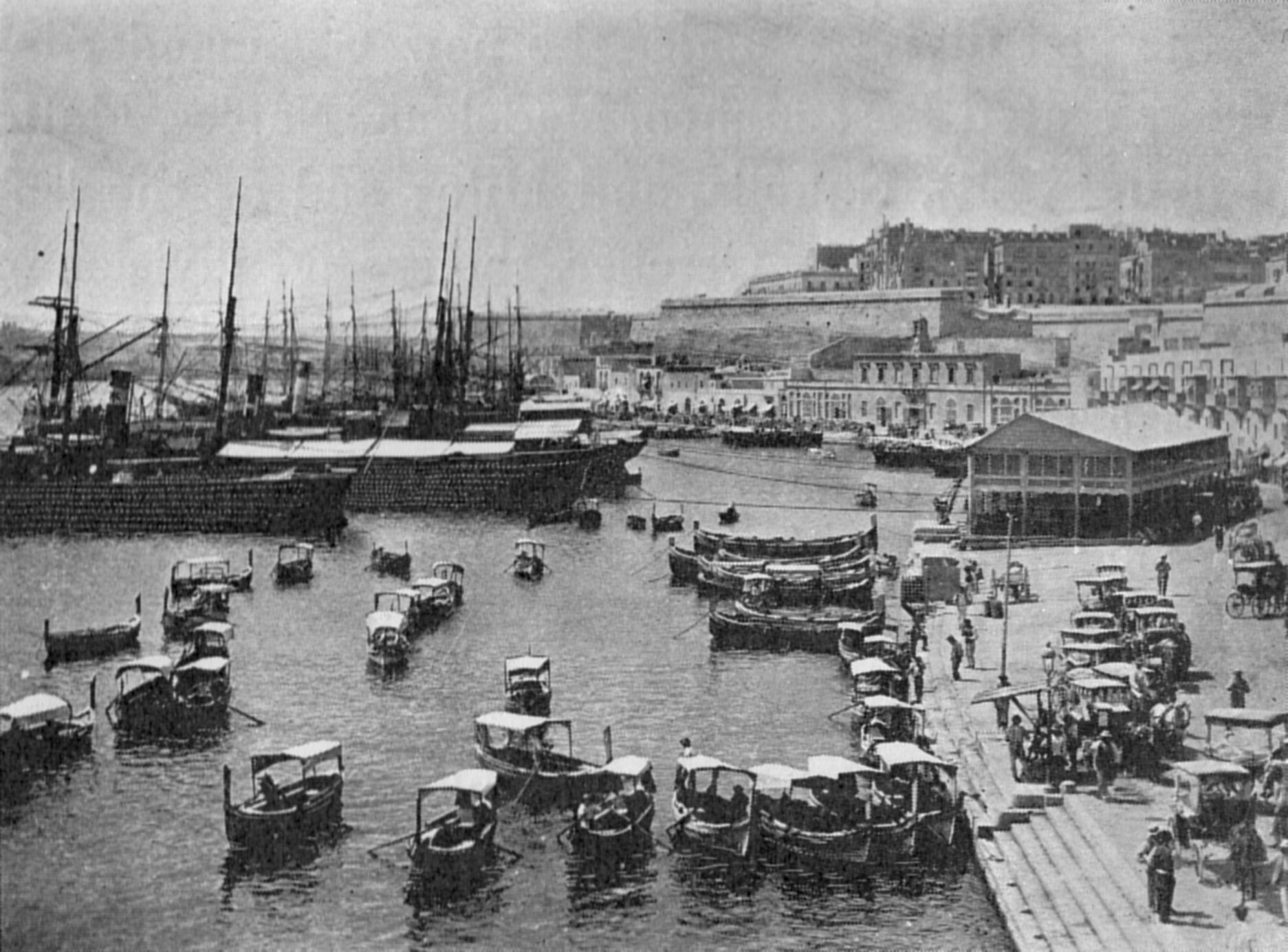 View of the Grand Harbour, Malta circa 1890.